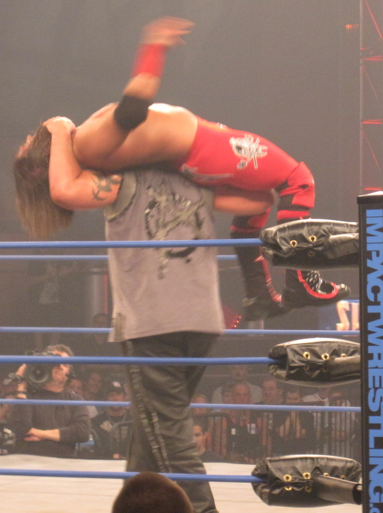 Sunday, June 12, 2011. Universal Orlando